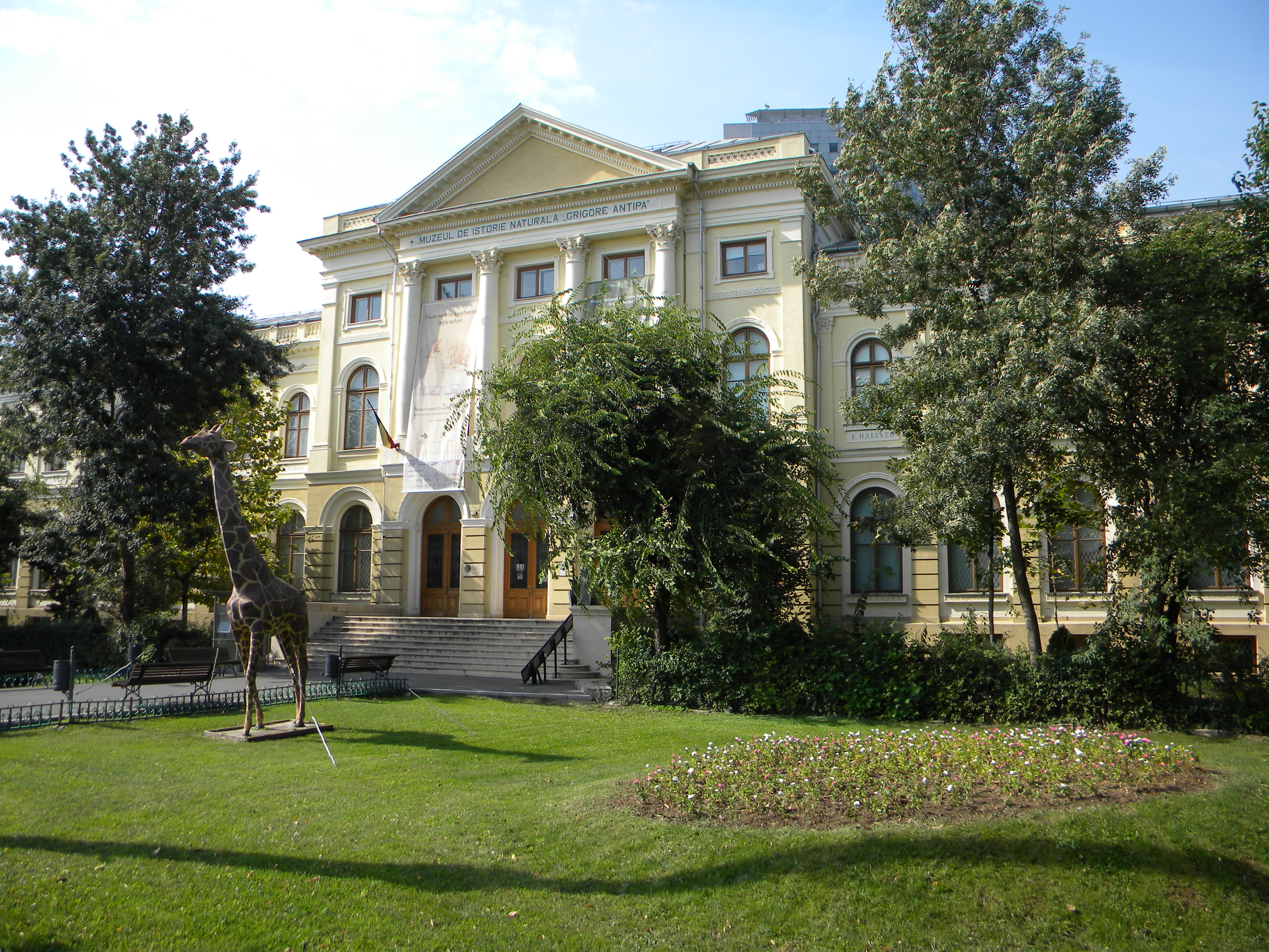 Grigore Antipa National Museum of Natural History. Romania, Bucharest.